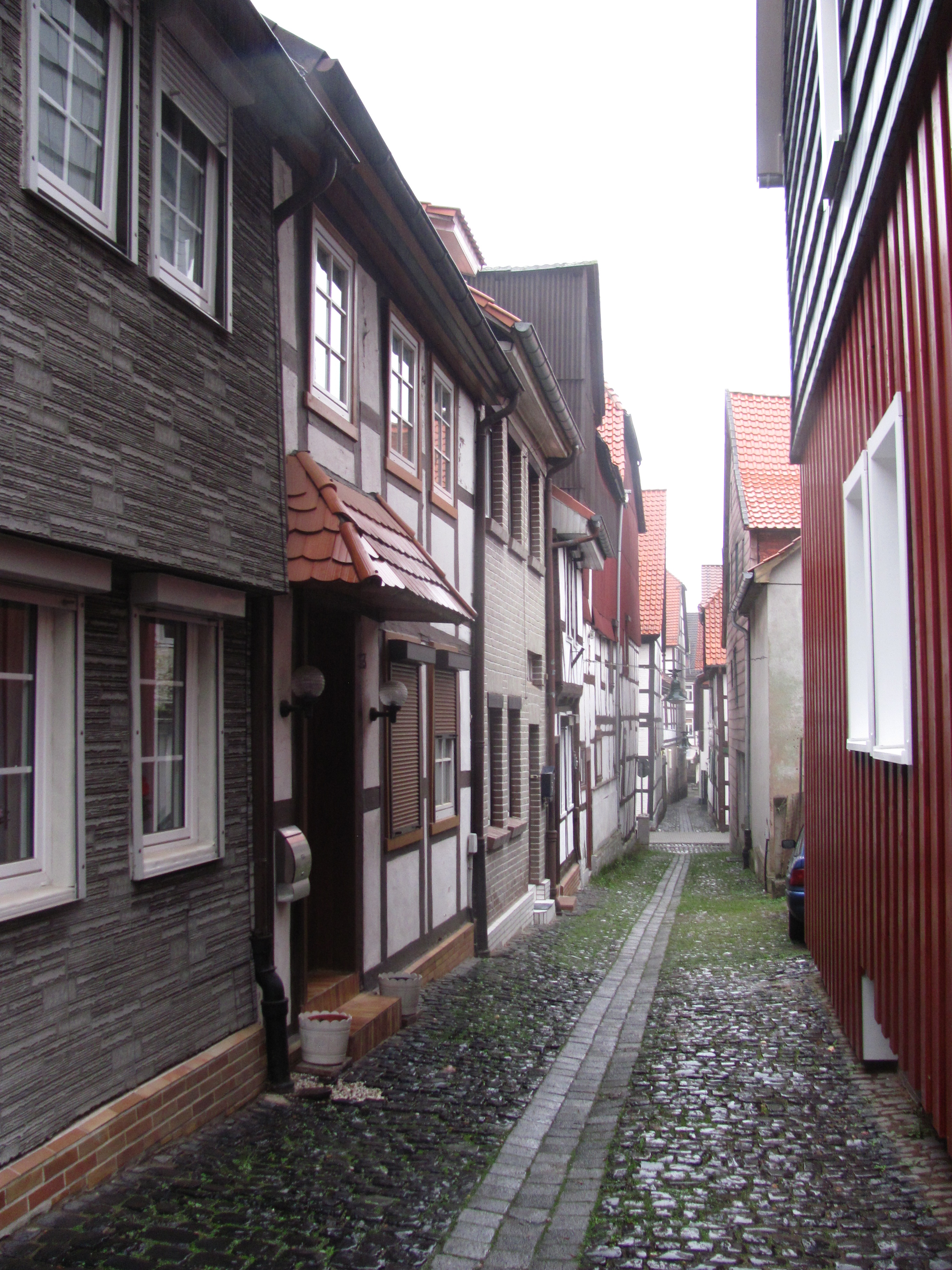 "Wassergasse" Lane in Northeim, Lower Saxony, Germany